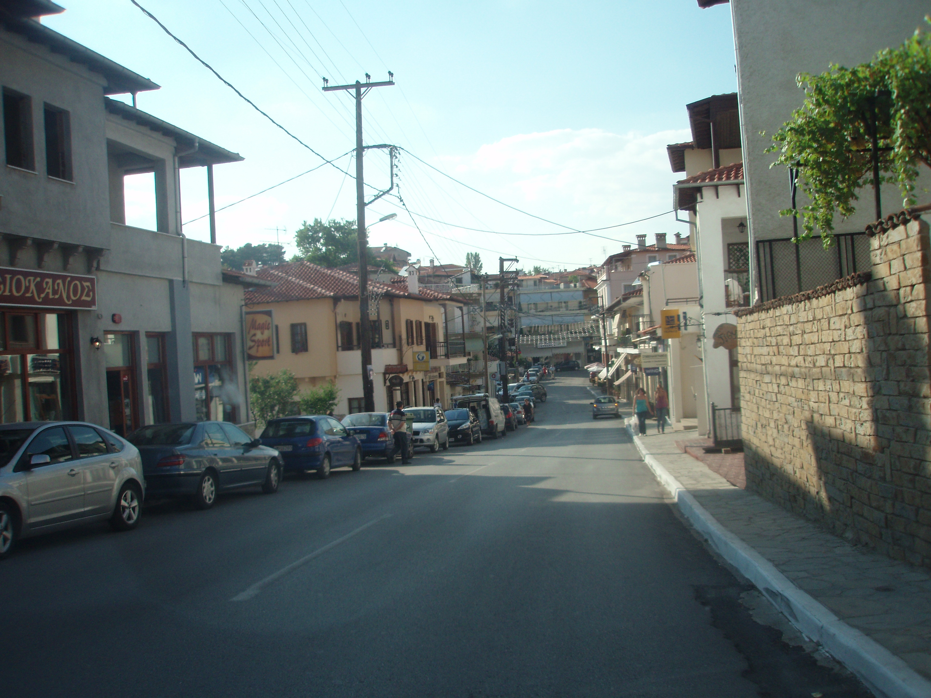 Main Road in Siatista, Kozani prefecture, Greece.